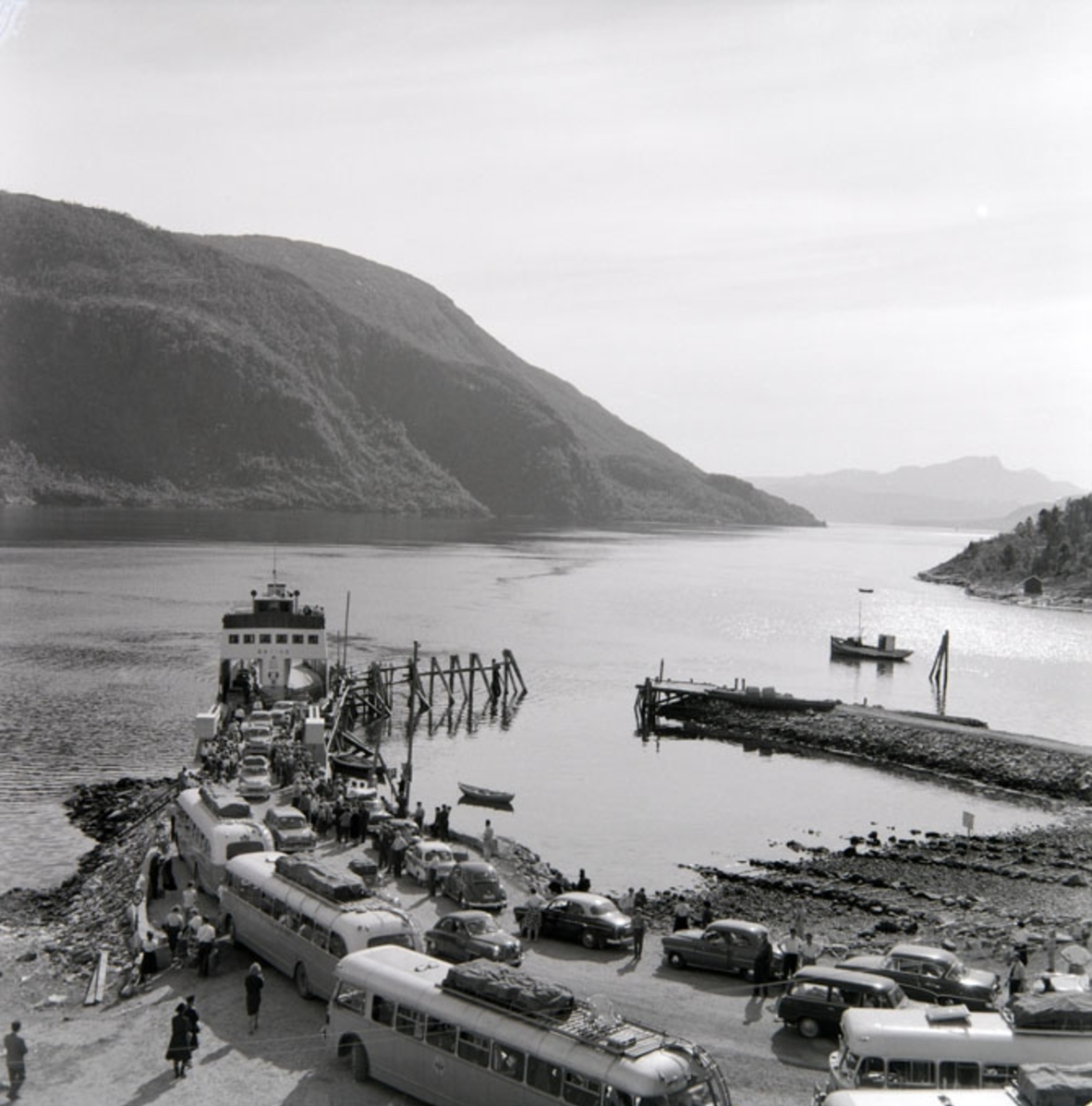 The ferry station at Bonåsjøen for highway 50 in 1960, Sørfold, Nordland, Norway.